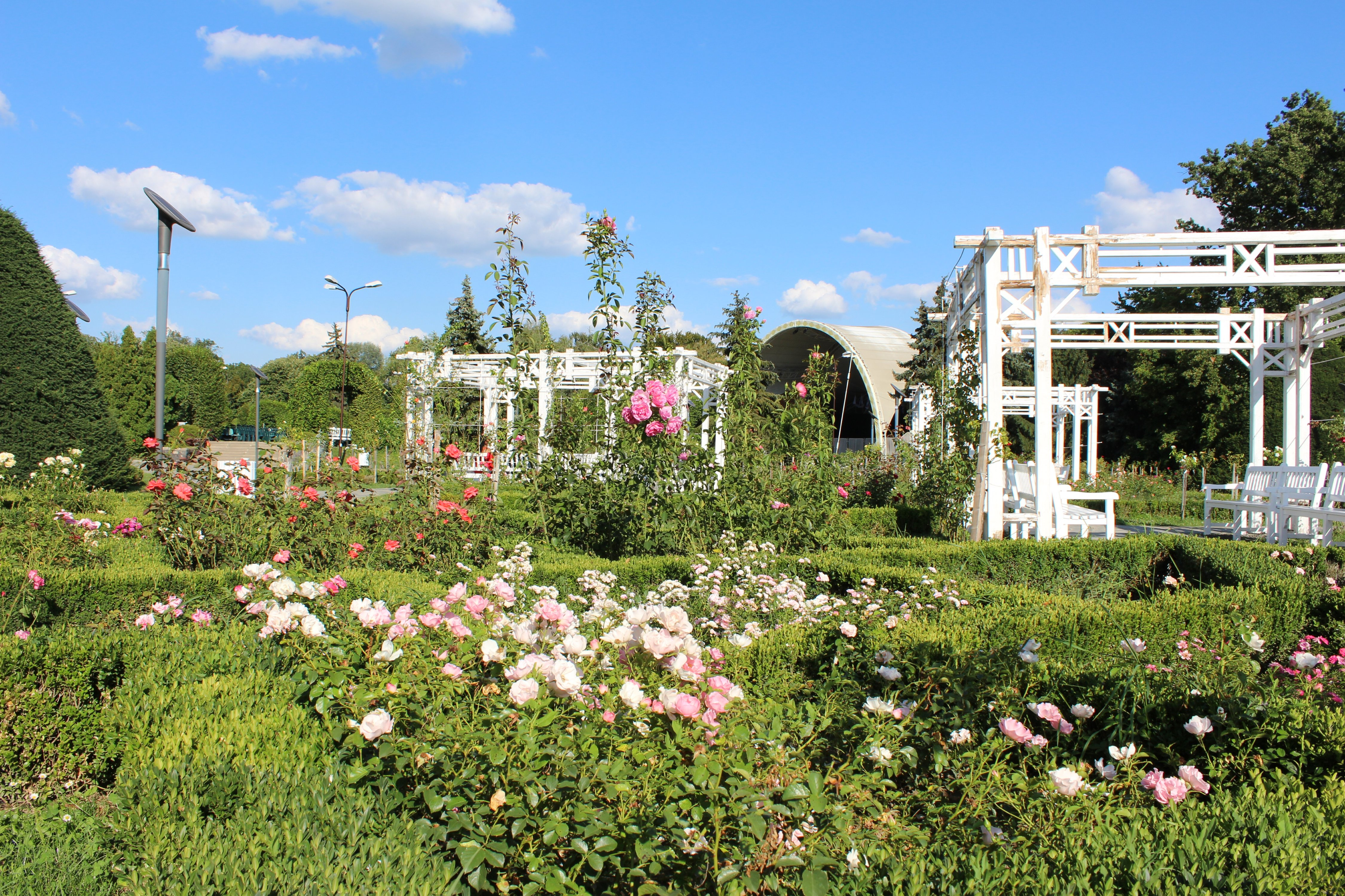 Park of Roses, Timisoara, Romania - roses